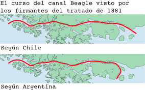 two versions about the Beagle Channel course